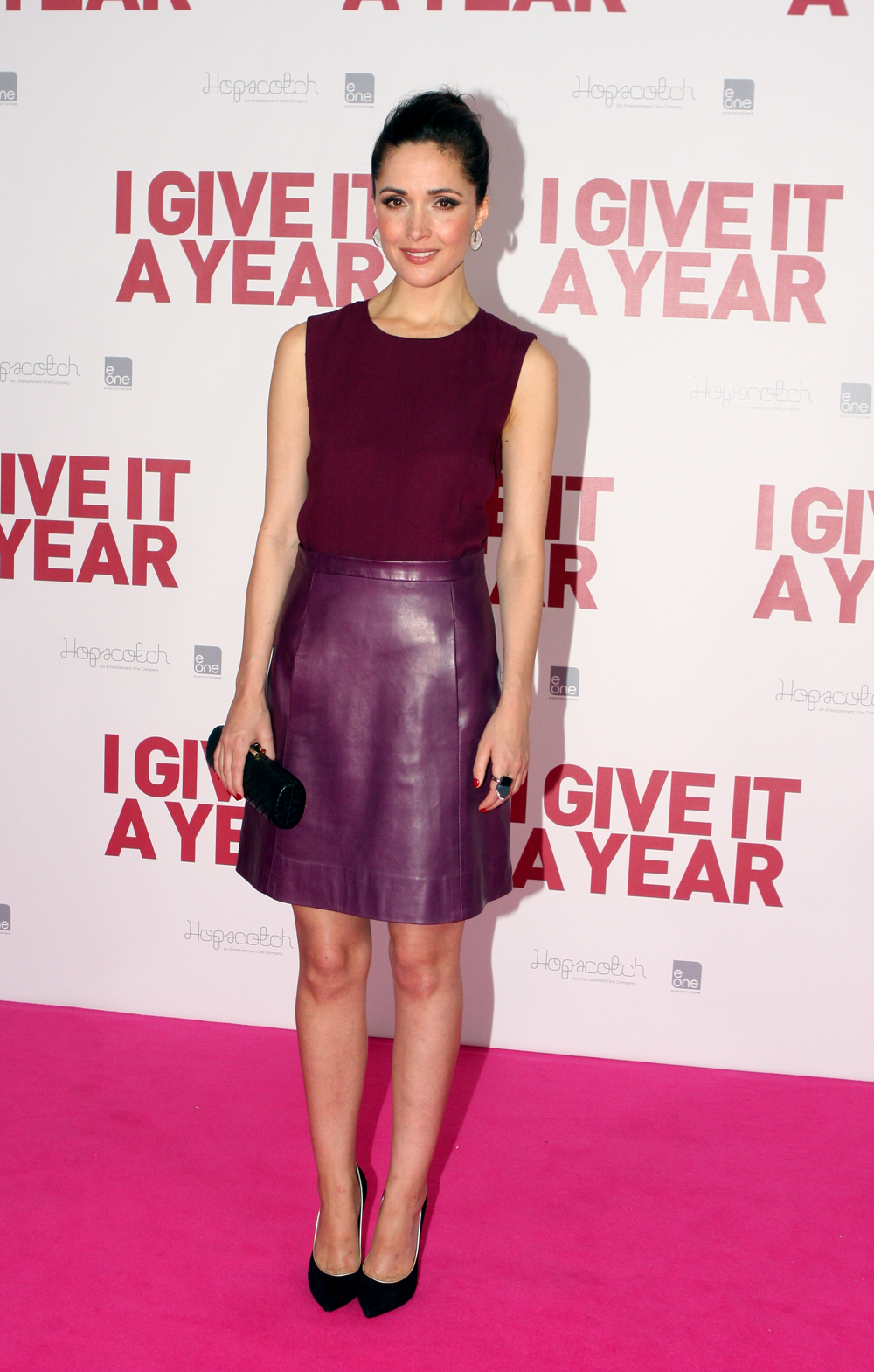 Rose Byrne